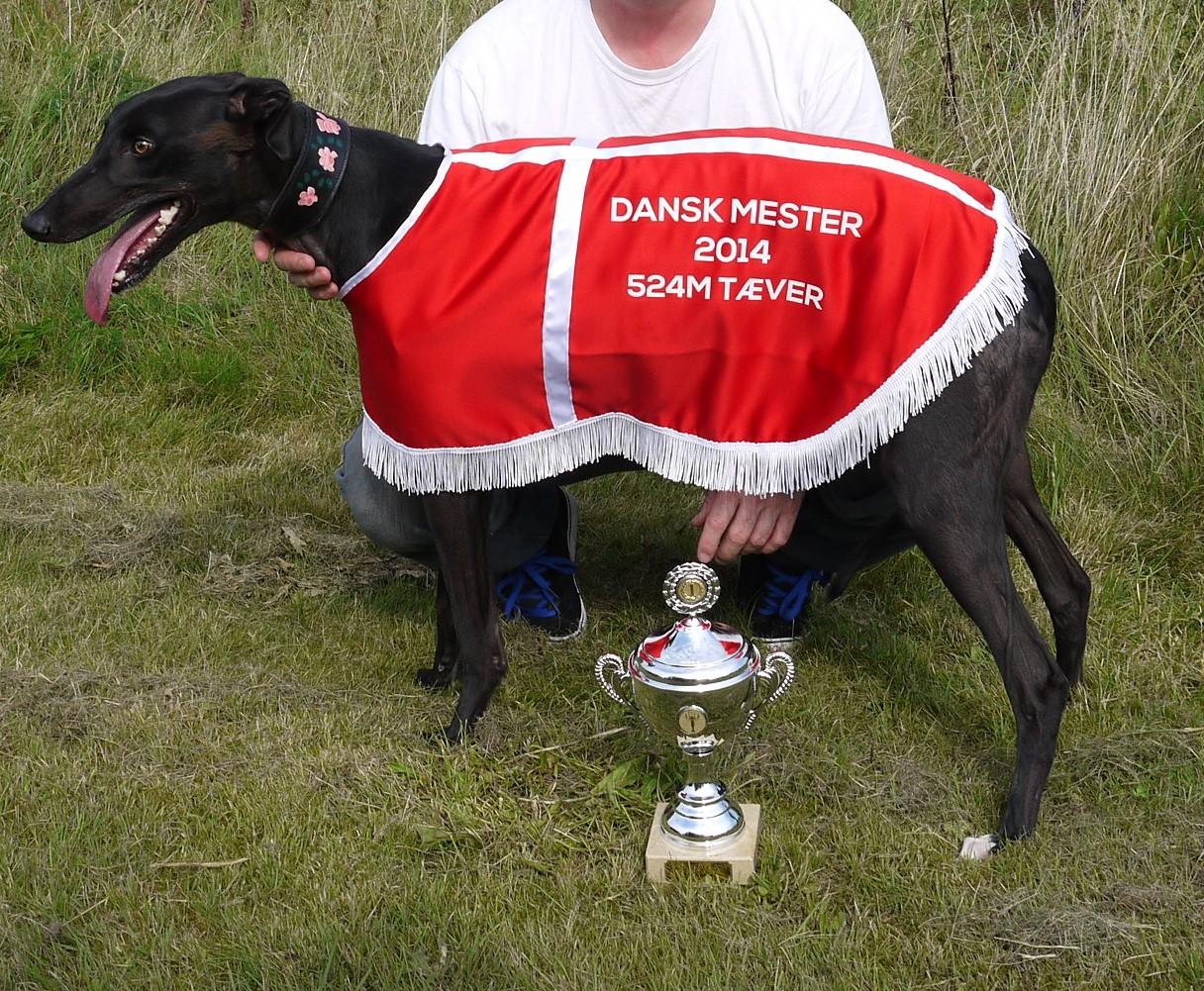 Monroe Flyer, Danish greyhound racing champion, bitches 2014